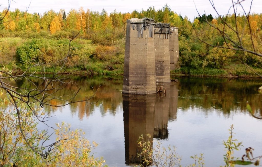 Unfinished bridge over the river Turukhan in Yanov Stan